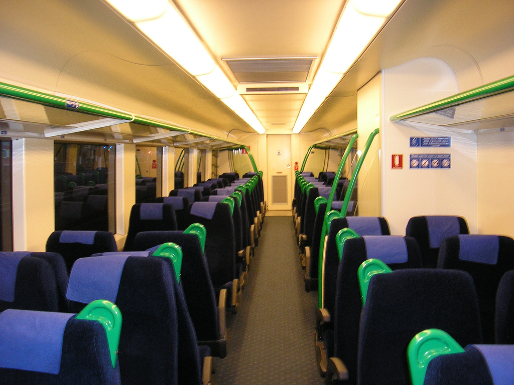 Interior of the passenger saloon of a VLocity DMU. Taken 6th May 06 at Geelong railway station, 7:30am service to Melbourne Southern Cross, inside VL24. Another version can be seen at